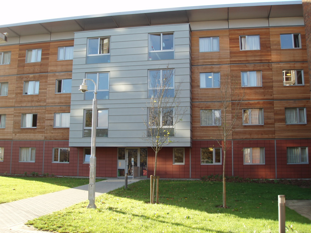 Montefiore House 4 of the Wessex Lane Halls, University of Southampton.